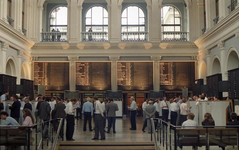 Juni 1988 Hamburg, Börse Information added by Wikimedia users.This is a photograph of an architectural monument.